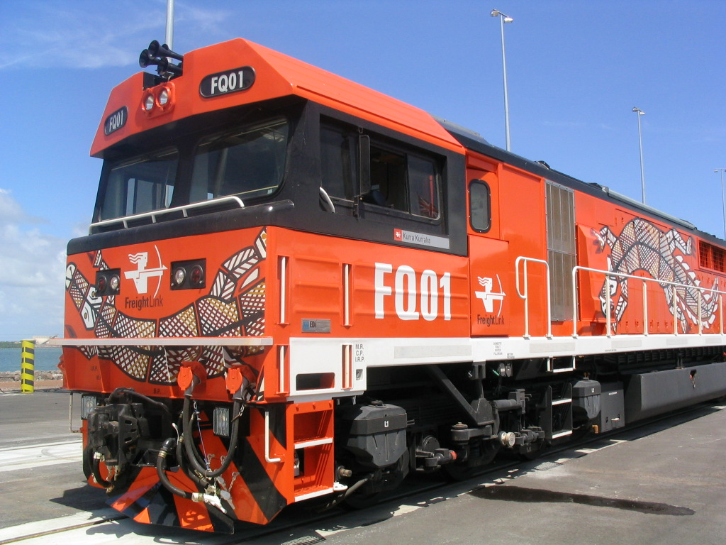 Arrival of the first Ghan into Darwin - First South-North transcontinental railway crossing of Australia.